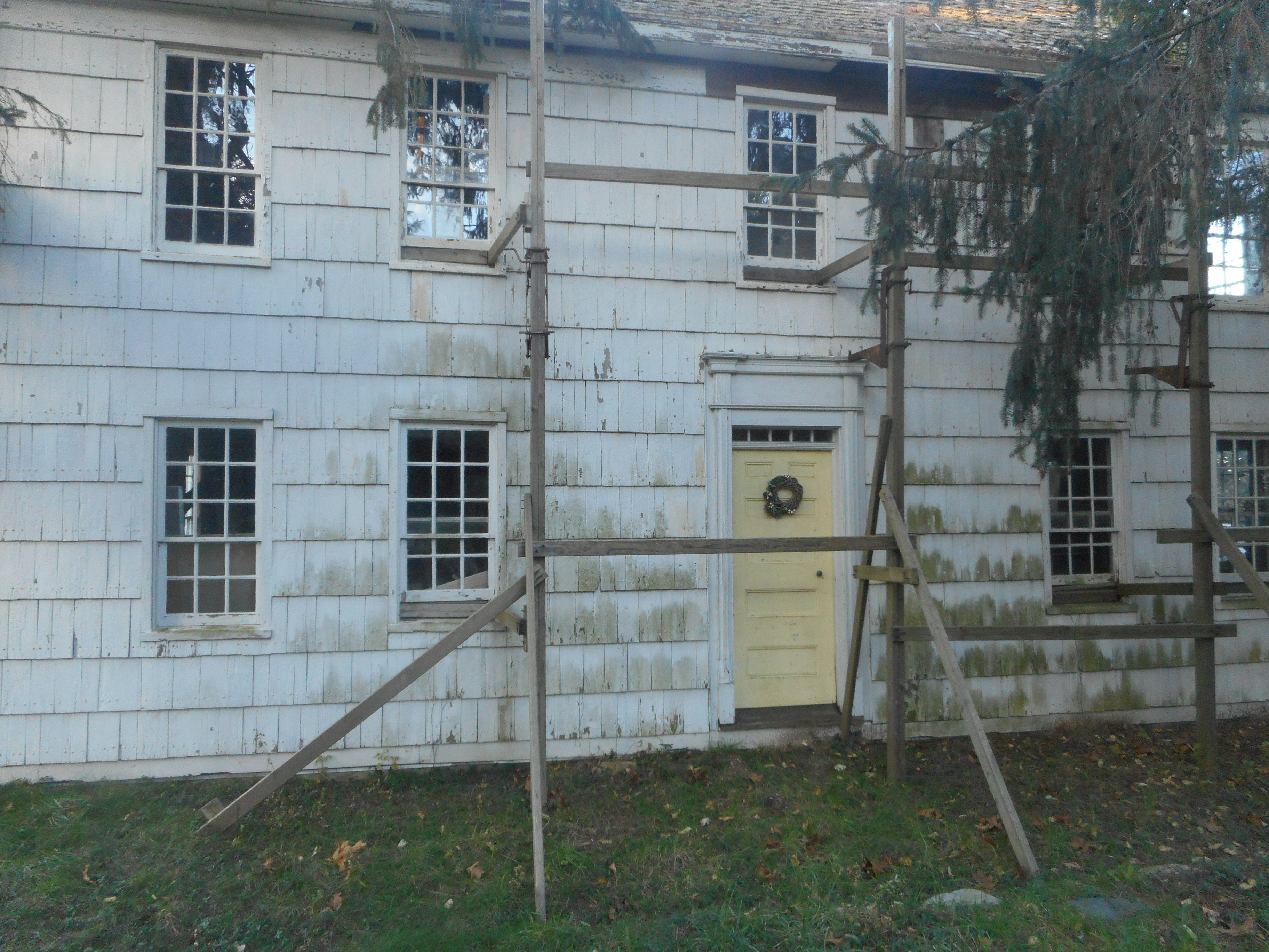 The front of the NRHP-listed James Benjamin Homestead on New York State Route 24 in Flanders, New York. The house is hidden behind trees along NY 24, and the sole caretaker of the house, who is struggling to restore it, has placed some homemade scaffolding in front of the house itself.